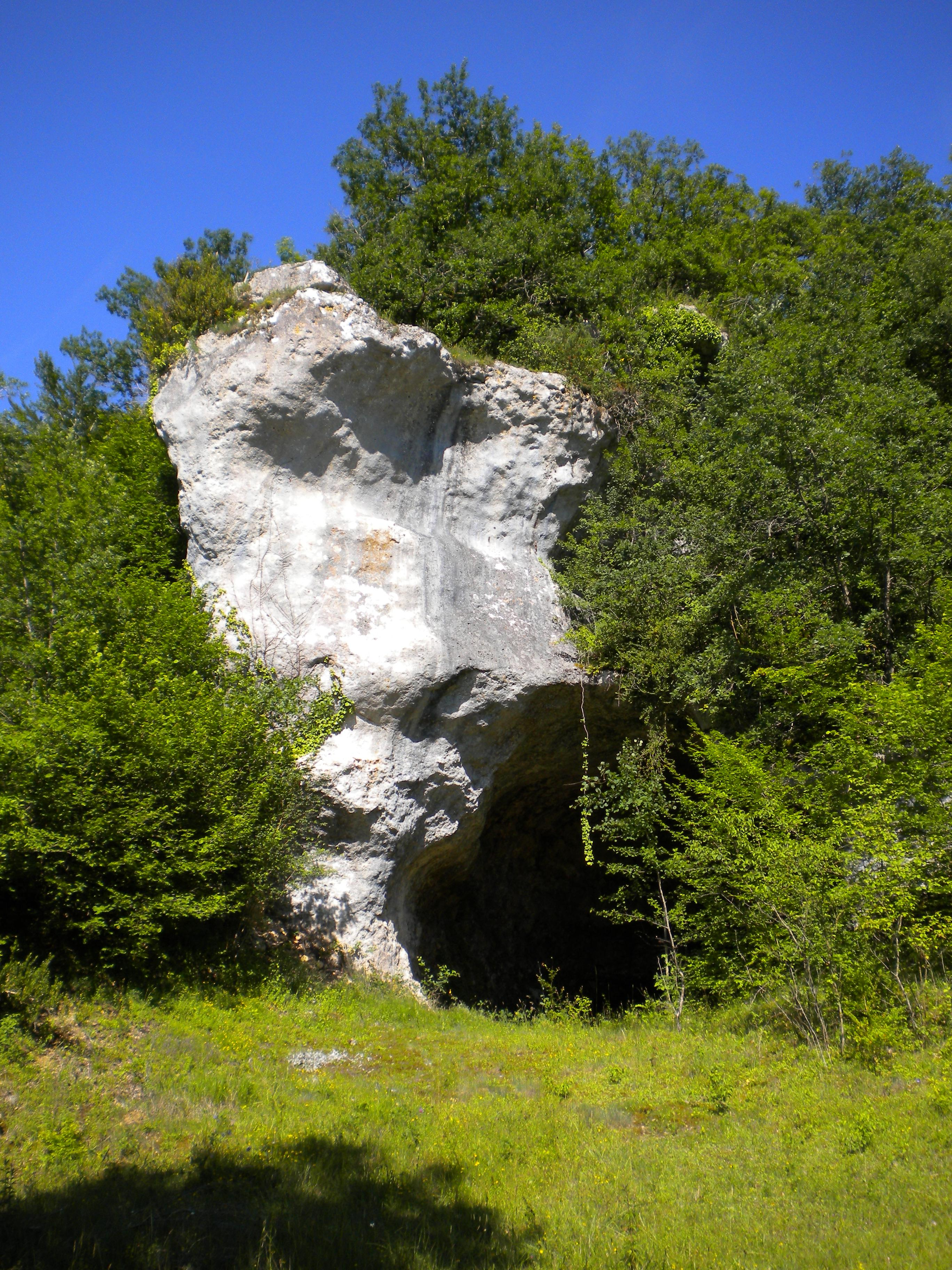 Rock shelter (abri) in Coniacian limestone in the Boulou valley (left-hand side) near La Tabaterie, commune of La Gonterie-Boulouneix, Dordogne, France. In the abri there is a natural spring and next to it a deep well - dangerous!